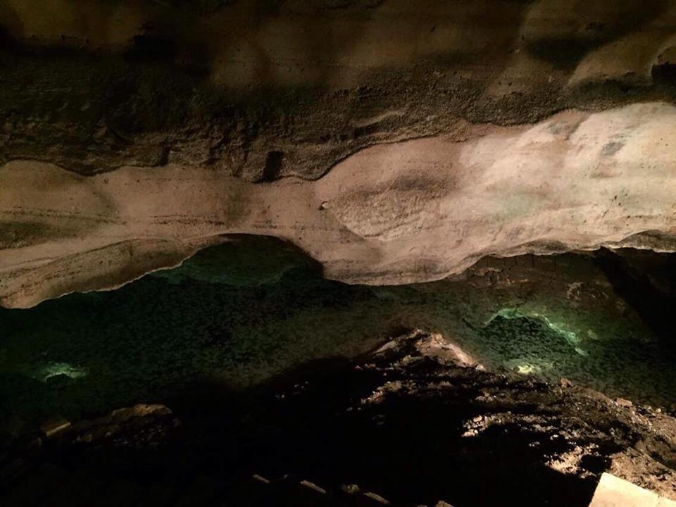 Inside of the first of two of the Englebrecht Caves, taken during a tour.